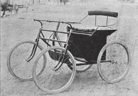 M.H. Daley of Charles City, IA. claimed having made the lightest car in the world. The two-cylinder gasoline vehicle weighed in at only 195 pounds. It was registered for the 1895 Chicago Times-Herald contest, but did not appear.